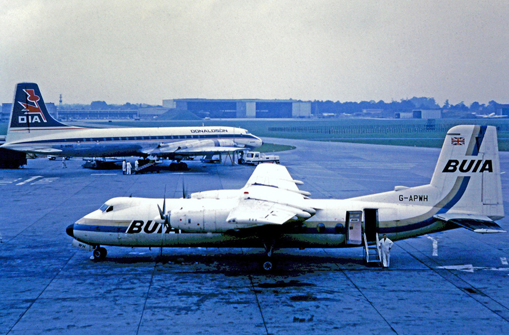 Handley Page Dart Herald G-APWH of British United Island Airways at London Gatwick in 1969